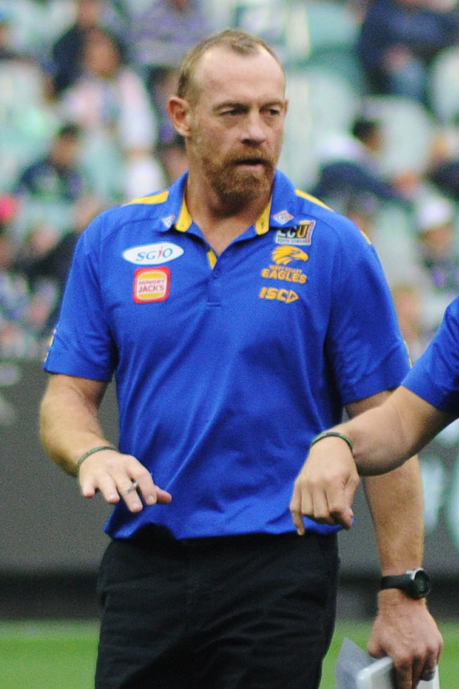 during the AFL round five match between Carlton and West Coast on 21 April 2018 at the Melbourne Cricket Ground in Melbourne, Victoria.